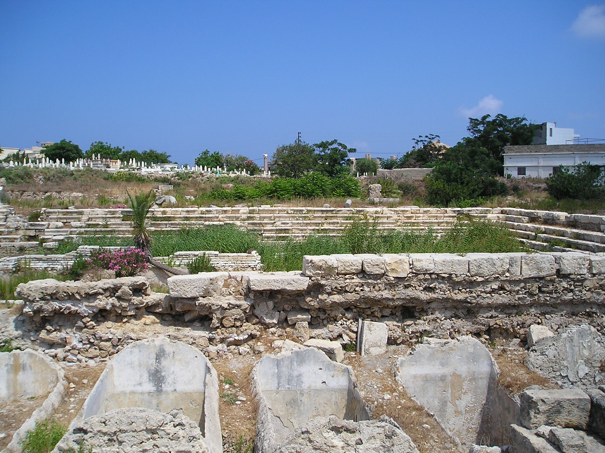 Tyre, Lebanon - rectangular theatre at Al Mina excavation area